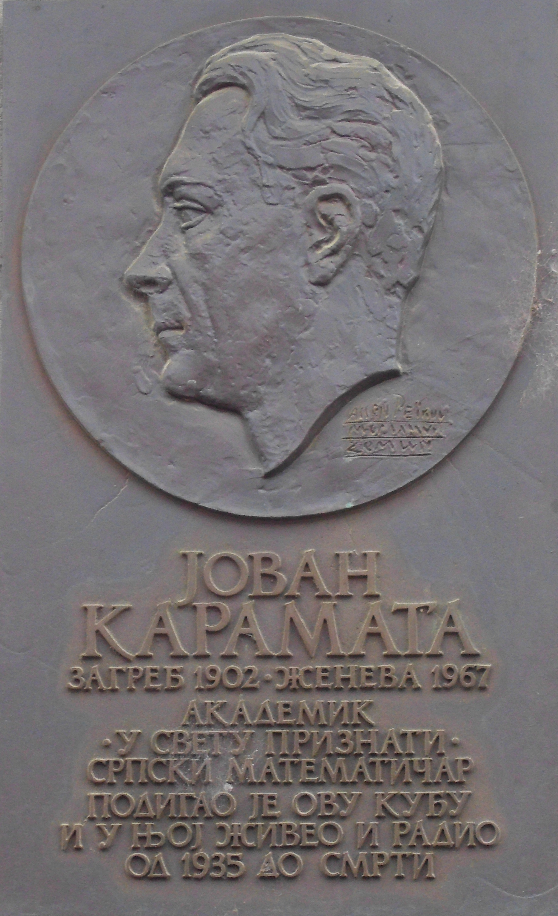 Memorial plaque of Jovan Karamata (1902-1967), Serbian mathematician, in his house in Zemun, that he inhabited from 1935.